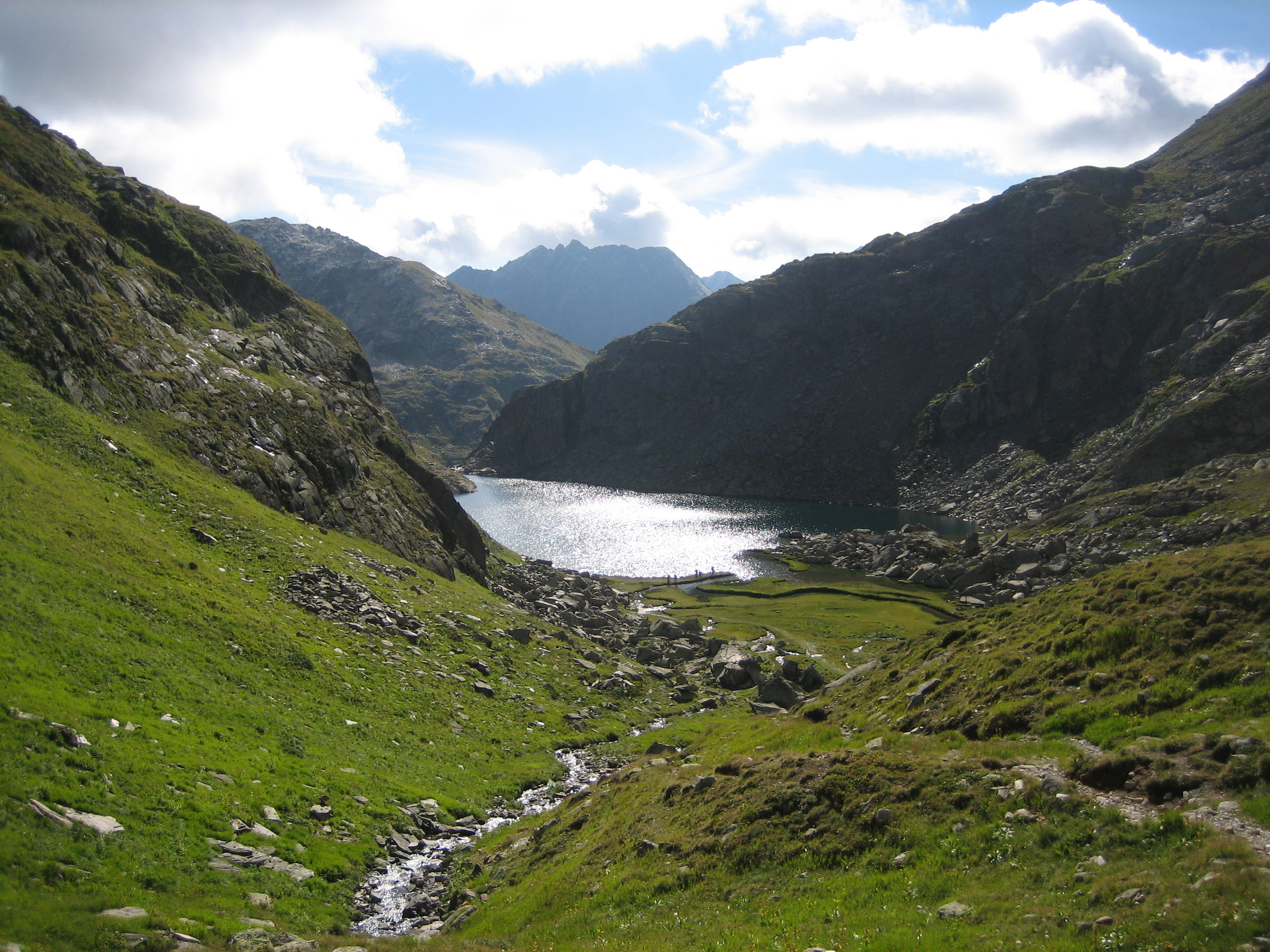 Tomasee, source of the rhine, Grisons, Switzerland